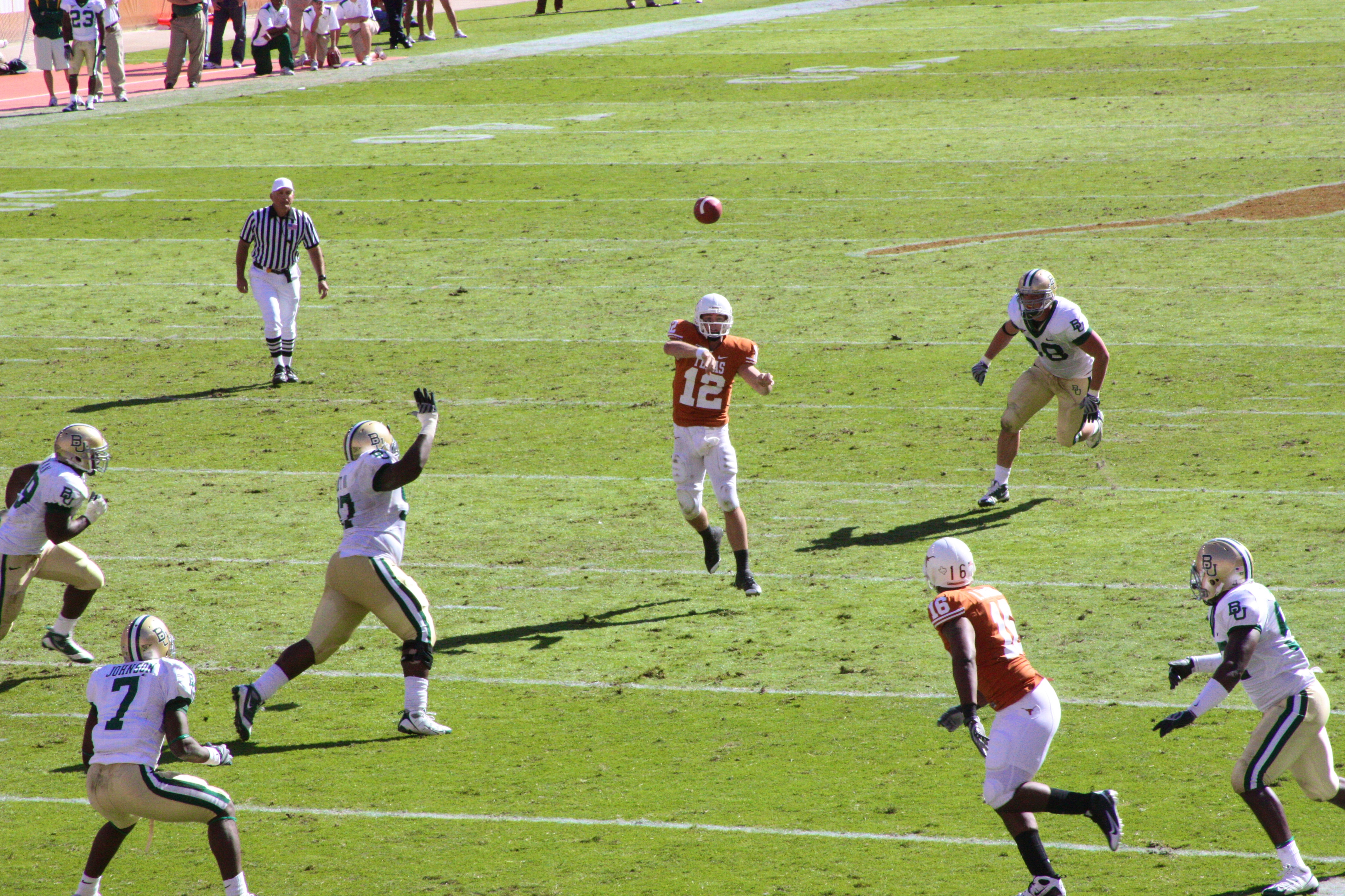 Colt McCoy of the 2008 Texas Longhorns football team throws a pass against Baylor in DKR stadium, Austin Texas